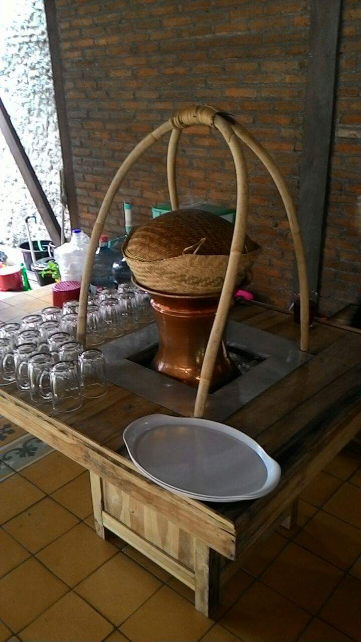 Old-style rice steaming set of Indonesia, esp. throughout Java Island. Dandang (Sundanese: langseng, seeng) is the one made of copper. Kukusan or aseupan, where rice is laid on, made from bamboo, reversed cone in form. Rice is protected using kekeb.